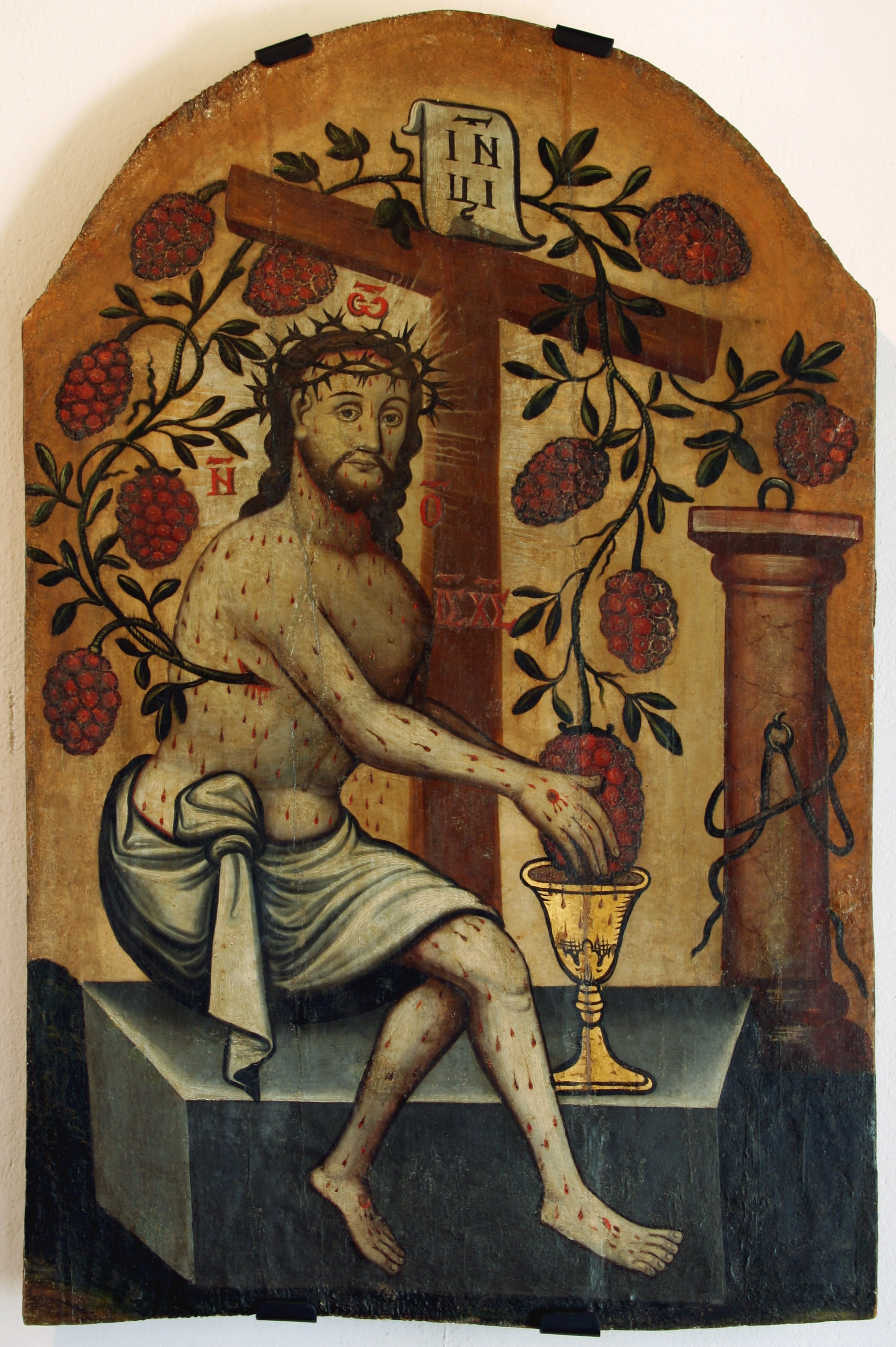 Jesus Christ of eucharist - an icon, Historic Museum in Sanok, Poland